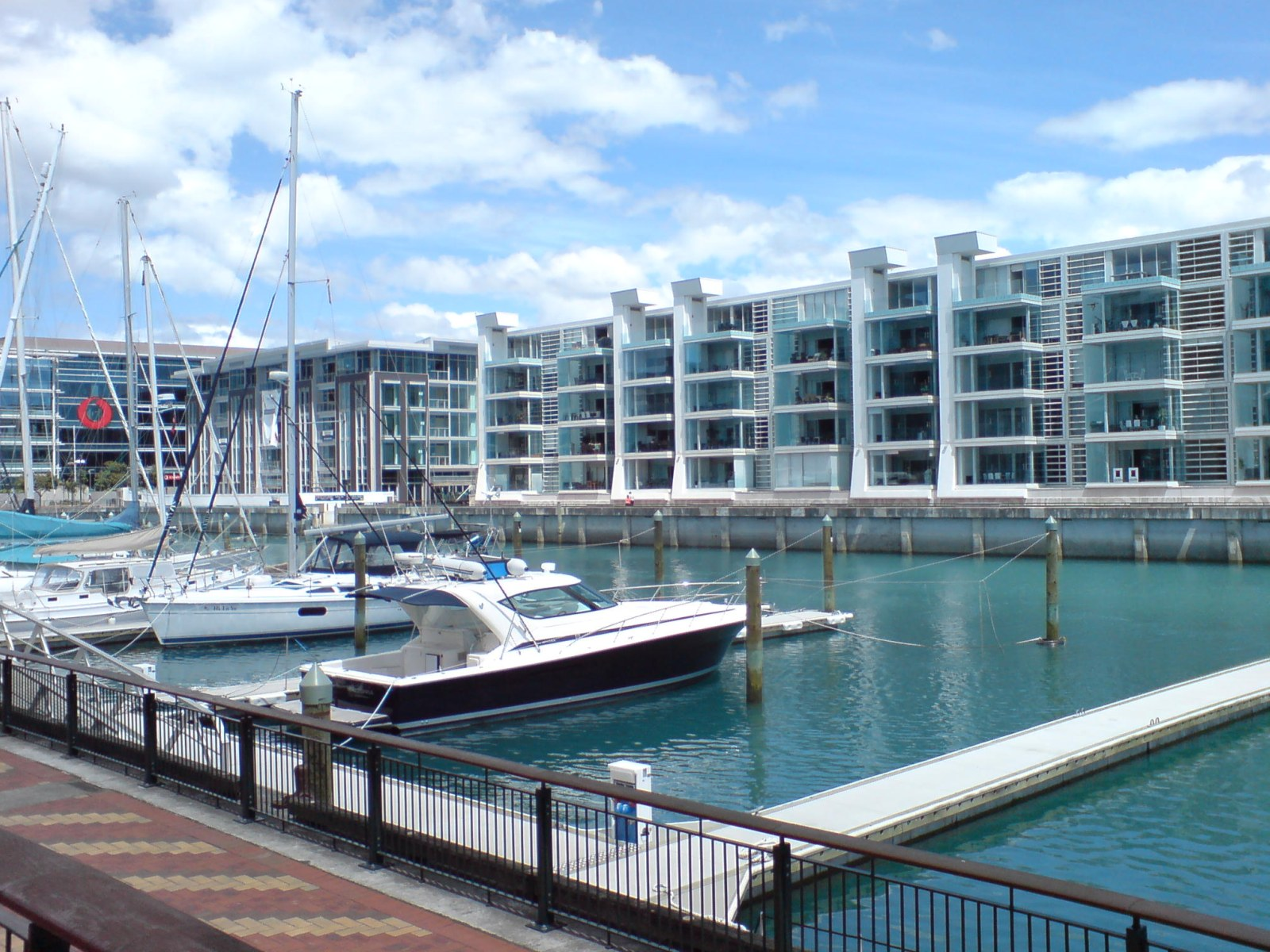 Viaduct Basin in Auckland City, New Zealand. View south-westwards over the 'Lighter Basin'.